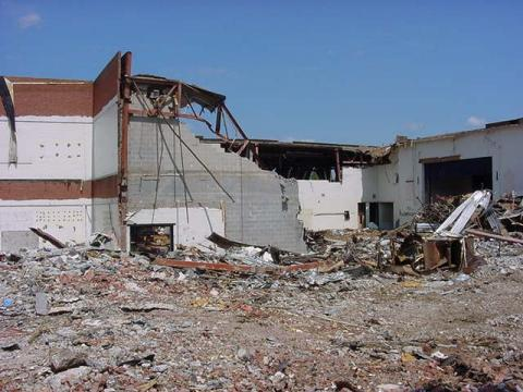 Demolition in 2002 of the former Crestwood High School, which later became Sandy Springs Middle School.